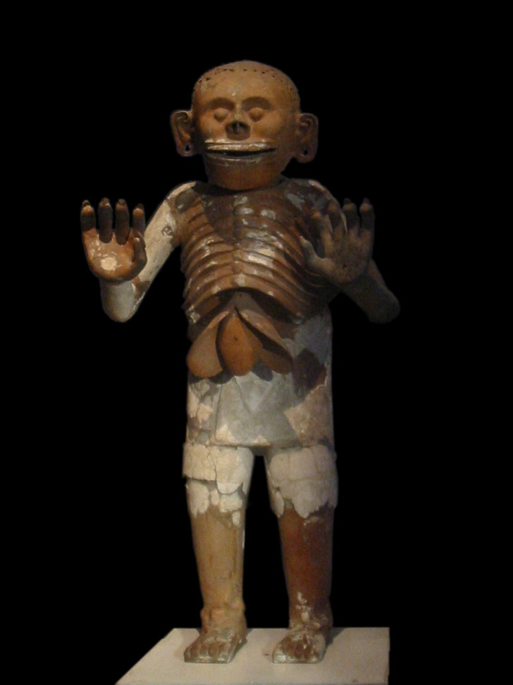 Statue of Mictlantecuhtli on display at the museum of the Templo Mayor in Mexico City.